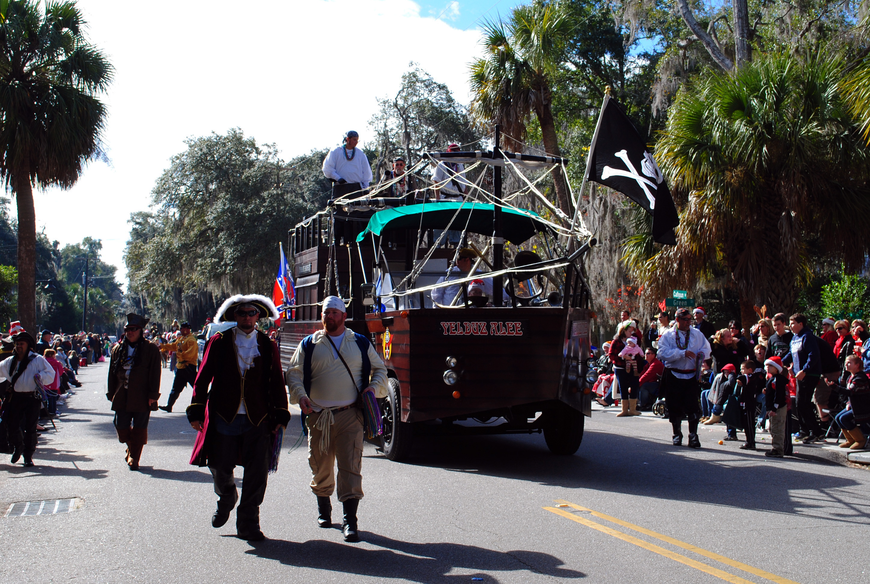 The Pirate Ship at the Bluffton Christmas Parade